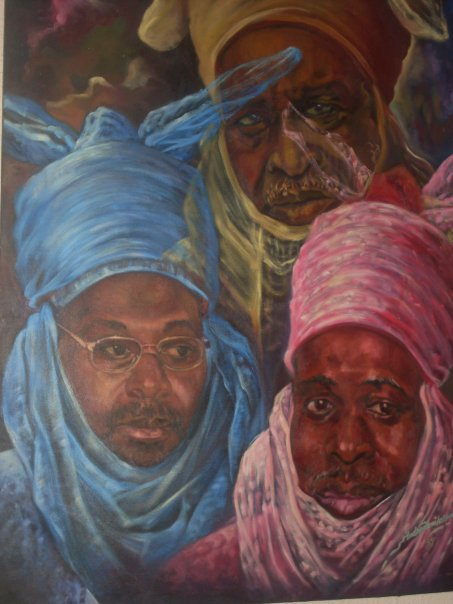 Top to Bottom: The 7th Emir of Kazaure, Late Alhaji Adamu Abdulmumin (1940-1968) The 10th Emir of Kazaure, HRH Dr. Najib Hussaini Adamu, CON (1998- to date) The 9th Emir of Kazaure, Late Alhaji Hussaini Adamu (1994-1998)